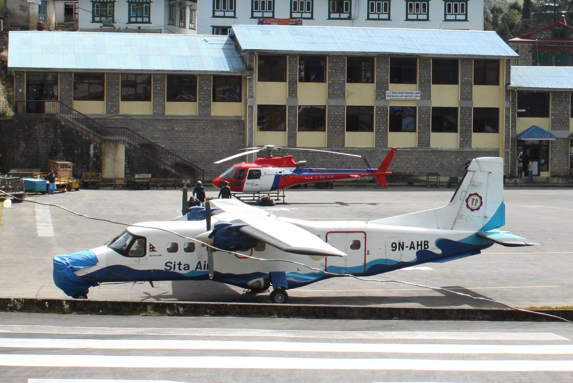 Airplane Dornier Do 228 after accident at Lukla Airport Nepal